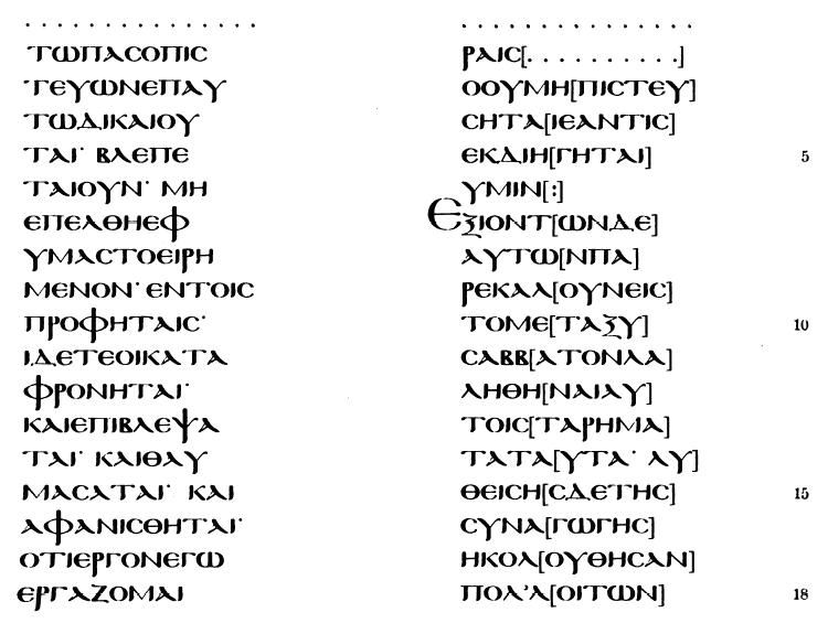 page with text of Acts 12:39-43, in Tischendorf's facsimile edition ("Anecdota sacra et profana", 1855)